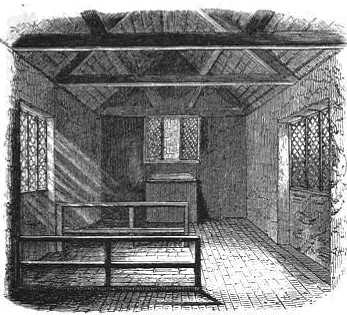 A mid-Victorian depiction of the courtroom at St Briavels Castle